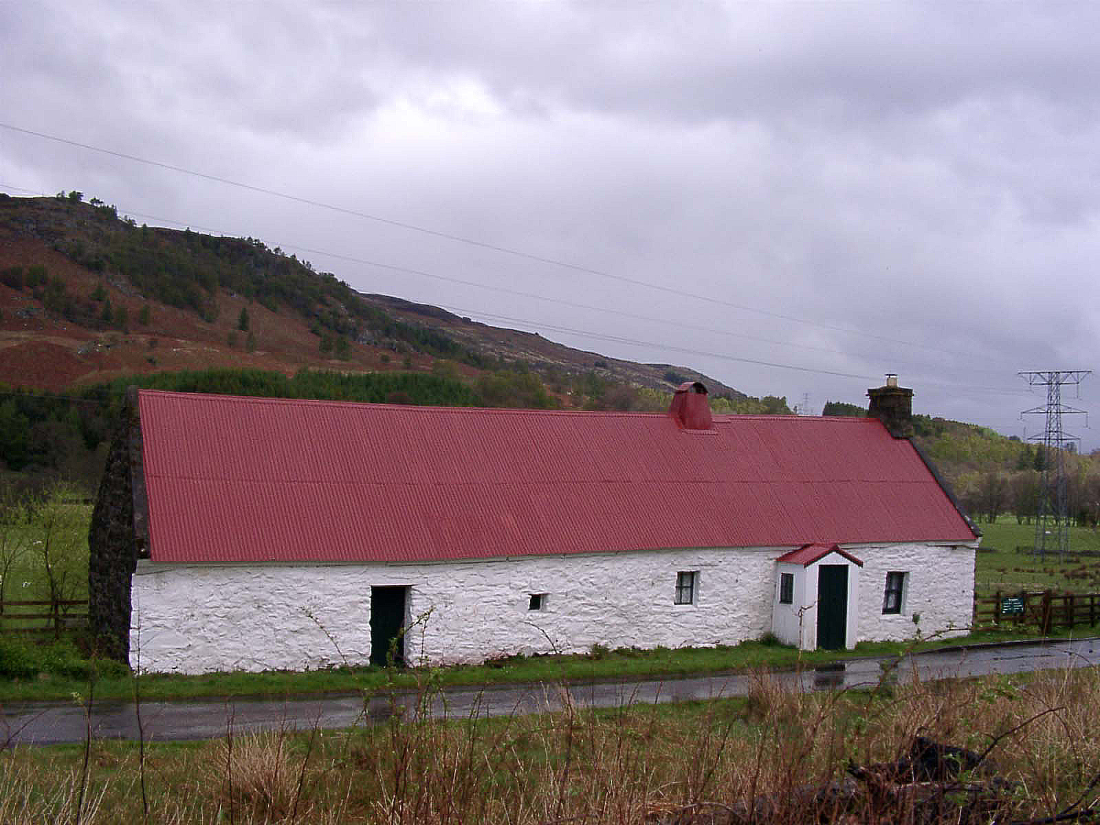 Photo of Moirlanich Lnghouse taken 2004 by Willie Angus